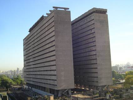 Copyright Tobias Baccas 2006 Author Tobias Baccas Removed from the following pages: Caseros Prison Caseros Prison Demolition Project - 16 Tons --OrphanBot 08:04, 17 August 2006 (UTC)